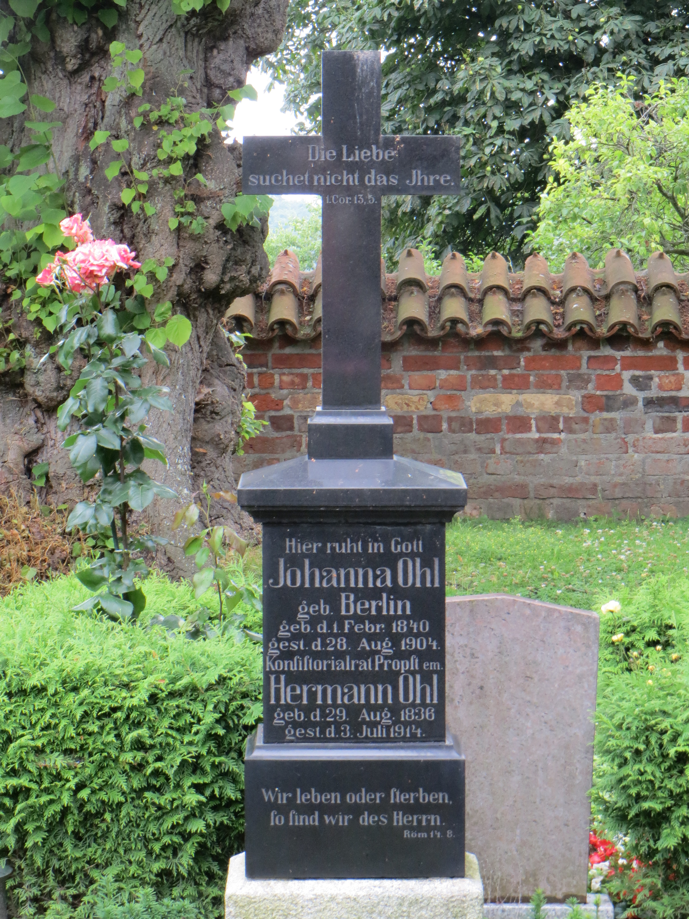 Ratzeburg Cathedral Cemetery